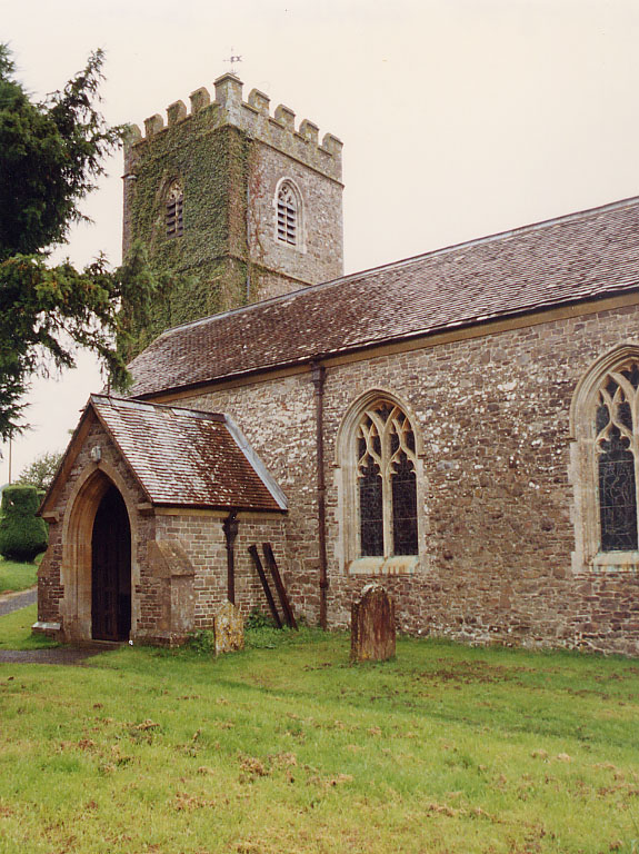 St Margaret, Stoodleigh, Devon